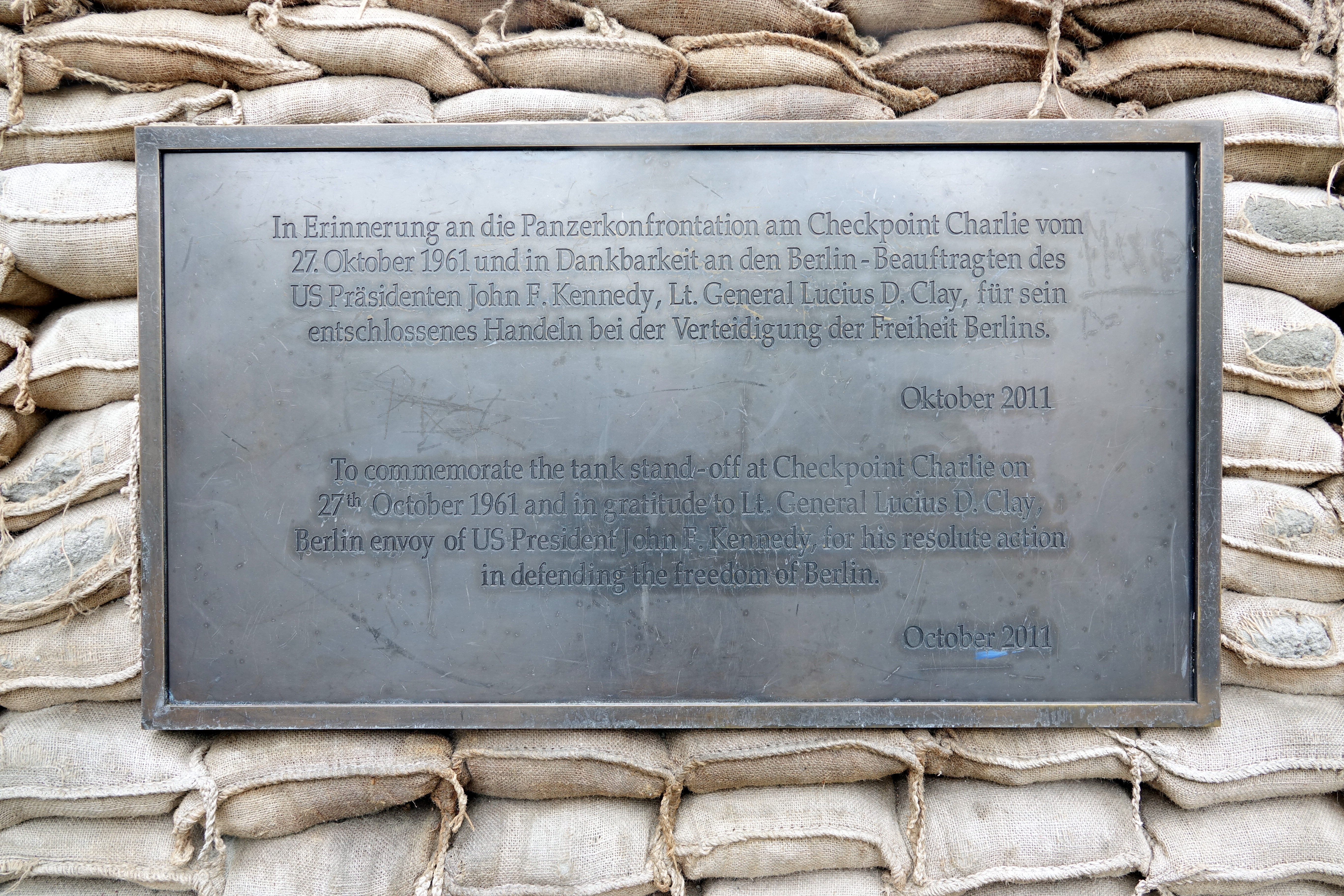 Plaque at Checkpoint Charlie in Berlin (Germany).